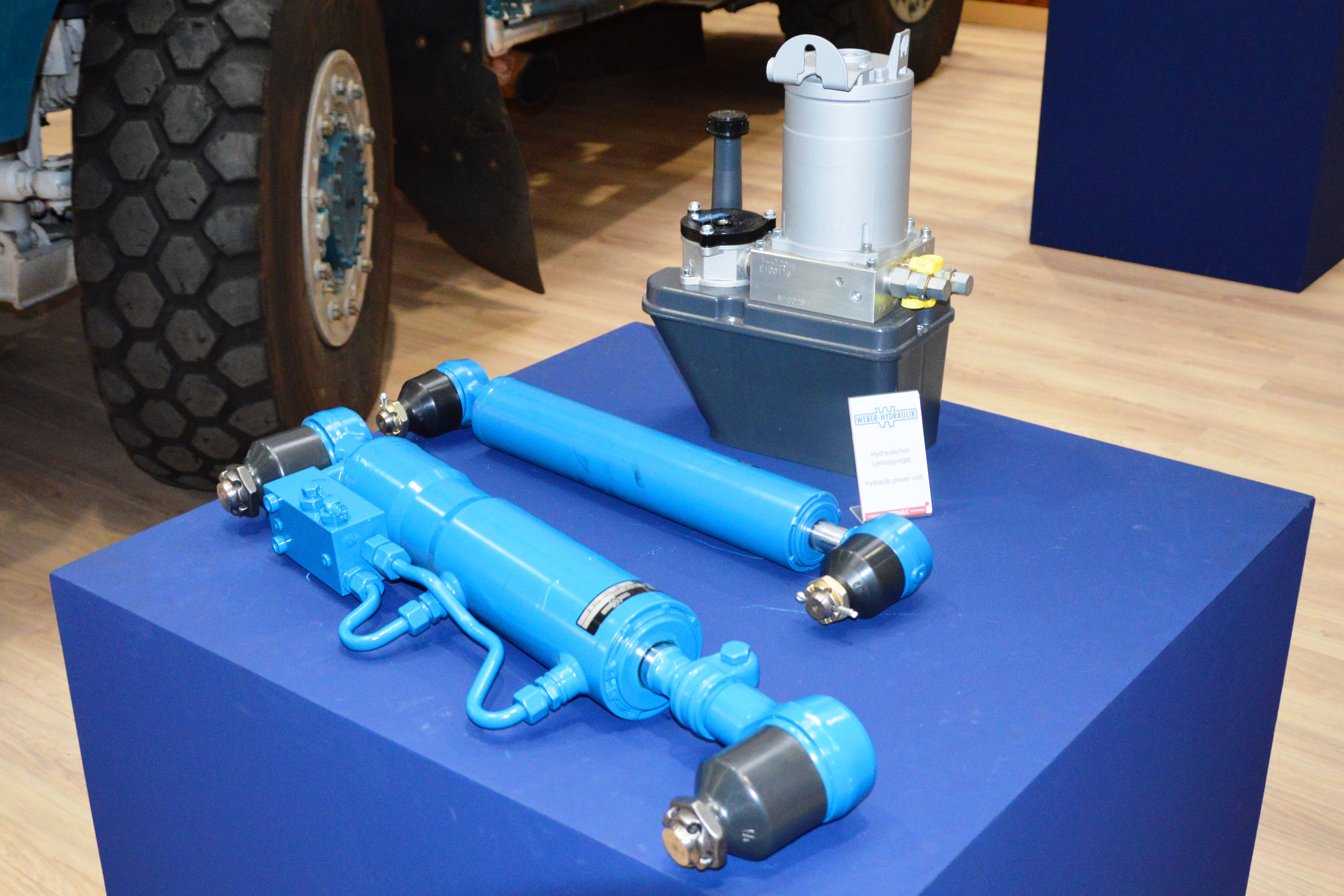 Removed hydraulic power unit. Weber-Hydraulik, Güglingen, Germany. Photo taken at exhibition IAA 2014 in Hanover, Germany.